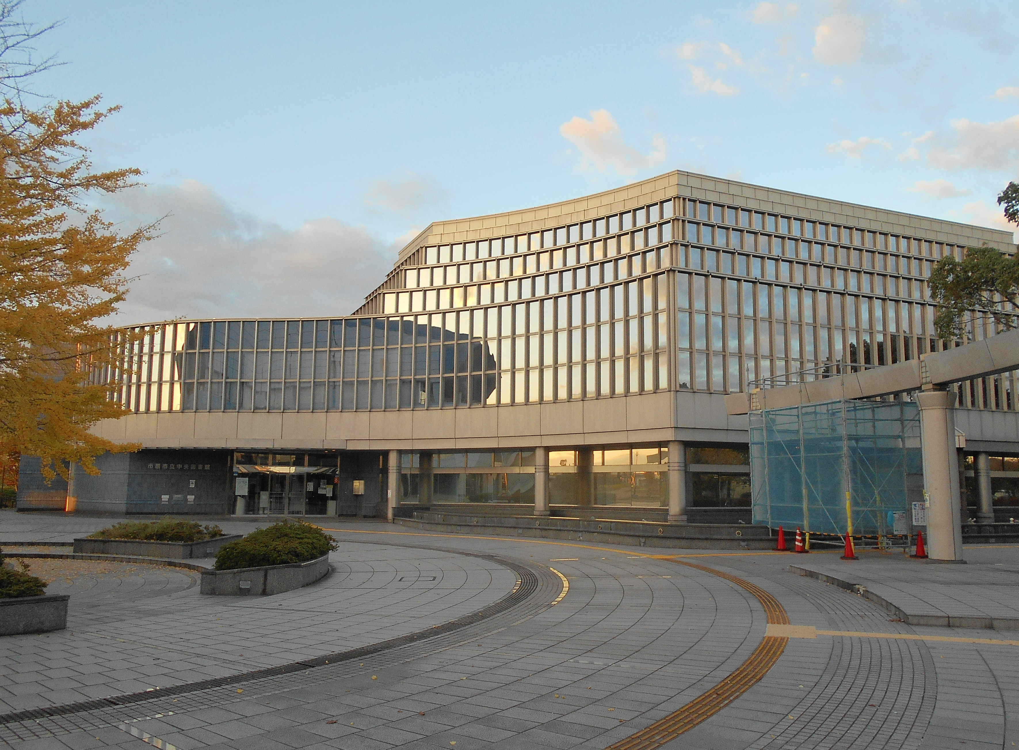 Ichihara City Central Library